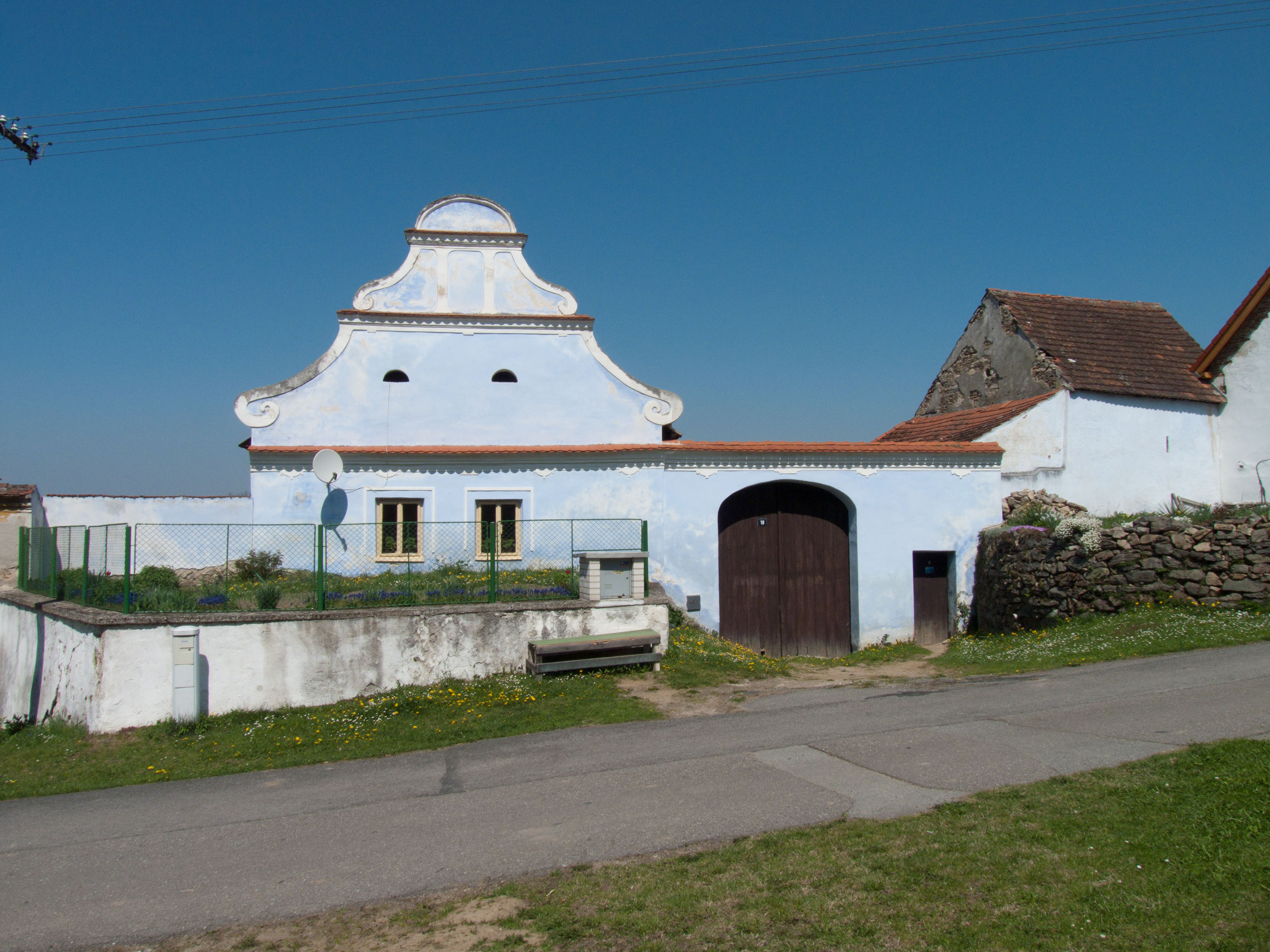 House No 18 in the village of Strunkovice nad Volyňkou, Strakonice District, Czech Republic.